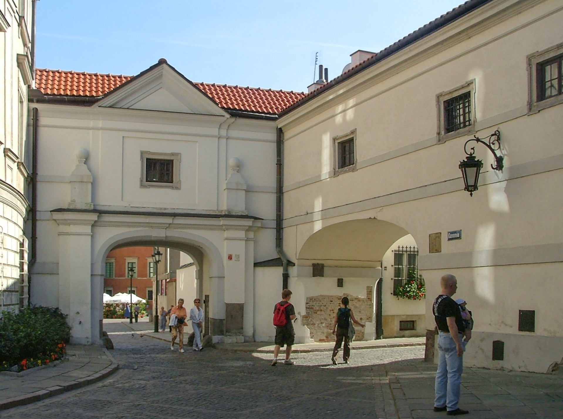 Poland, Kanonia Street in Warsaw